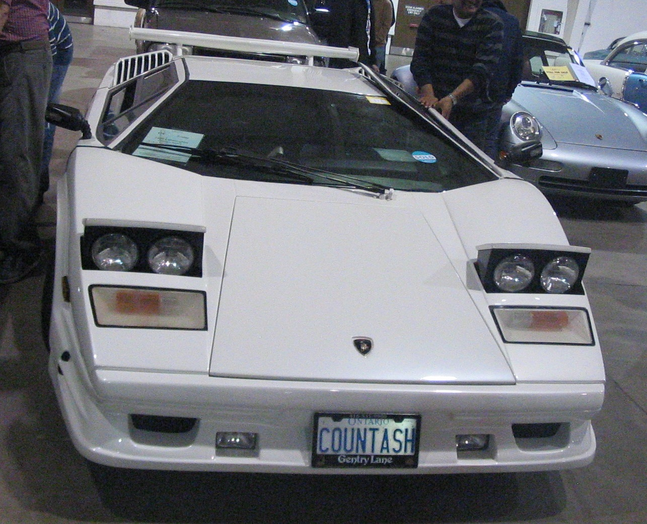 1989 Lamborghini Countach photographed in Mississauga, Ontario, Canada at the Toronto Classic Car Auction of spring 2012.